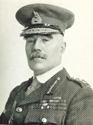 Photograph of British General William Robertson, Chief of the Imperial General Staff in World War I.